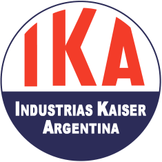 Logo of Industrias Kaiser Argentina (IKA), a vehicles manufacturer of Argentina established in the 1950s.